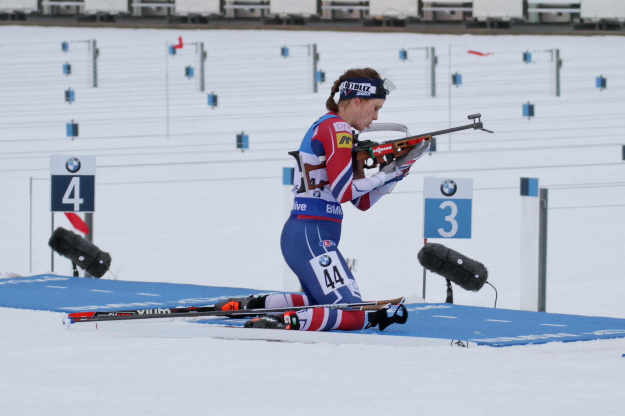 2018 Oberhof Biathlon World Cup - Sprint Women